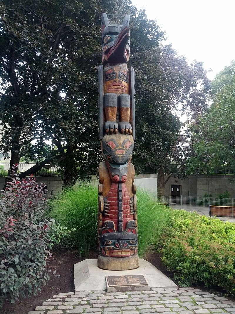 কানাডার অন্টারিও ওটাওয়াতে একটি টোট্যাম